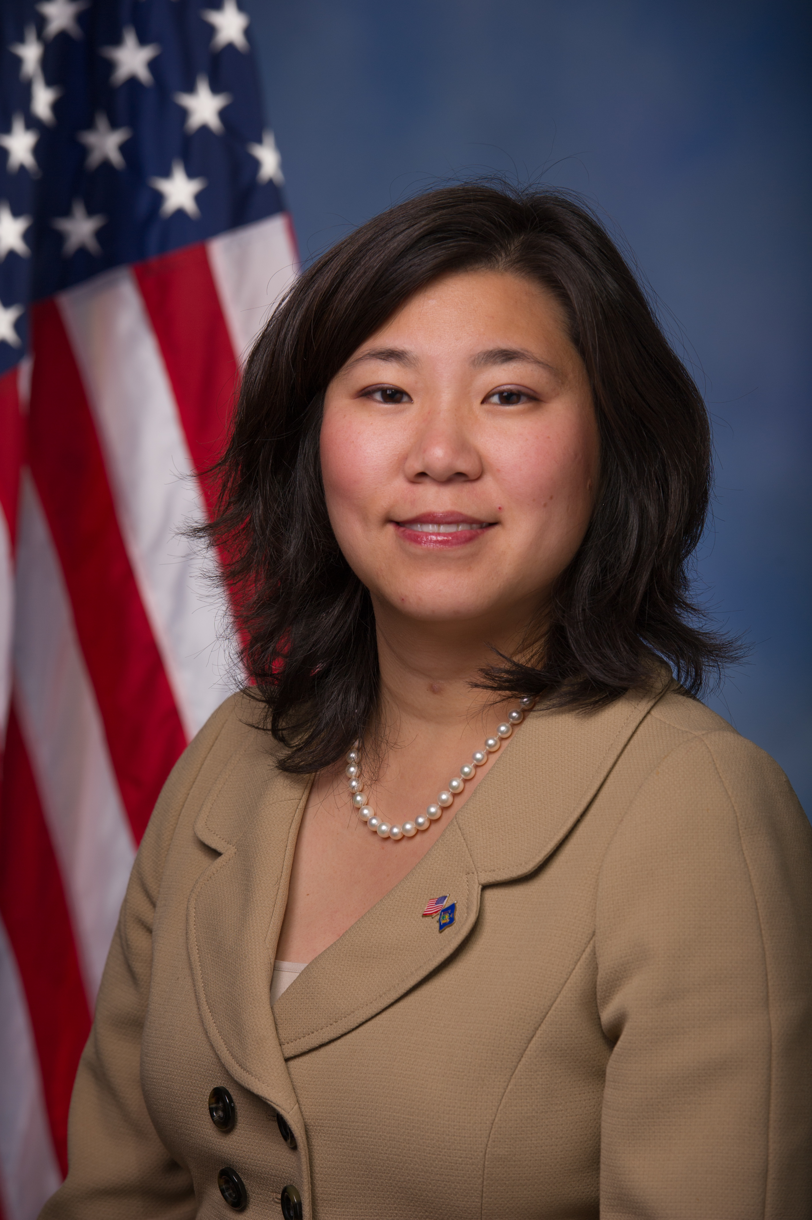 Official Congressional Photo